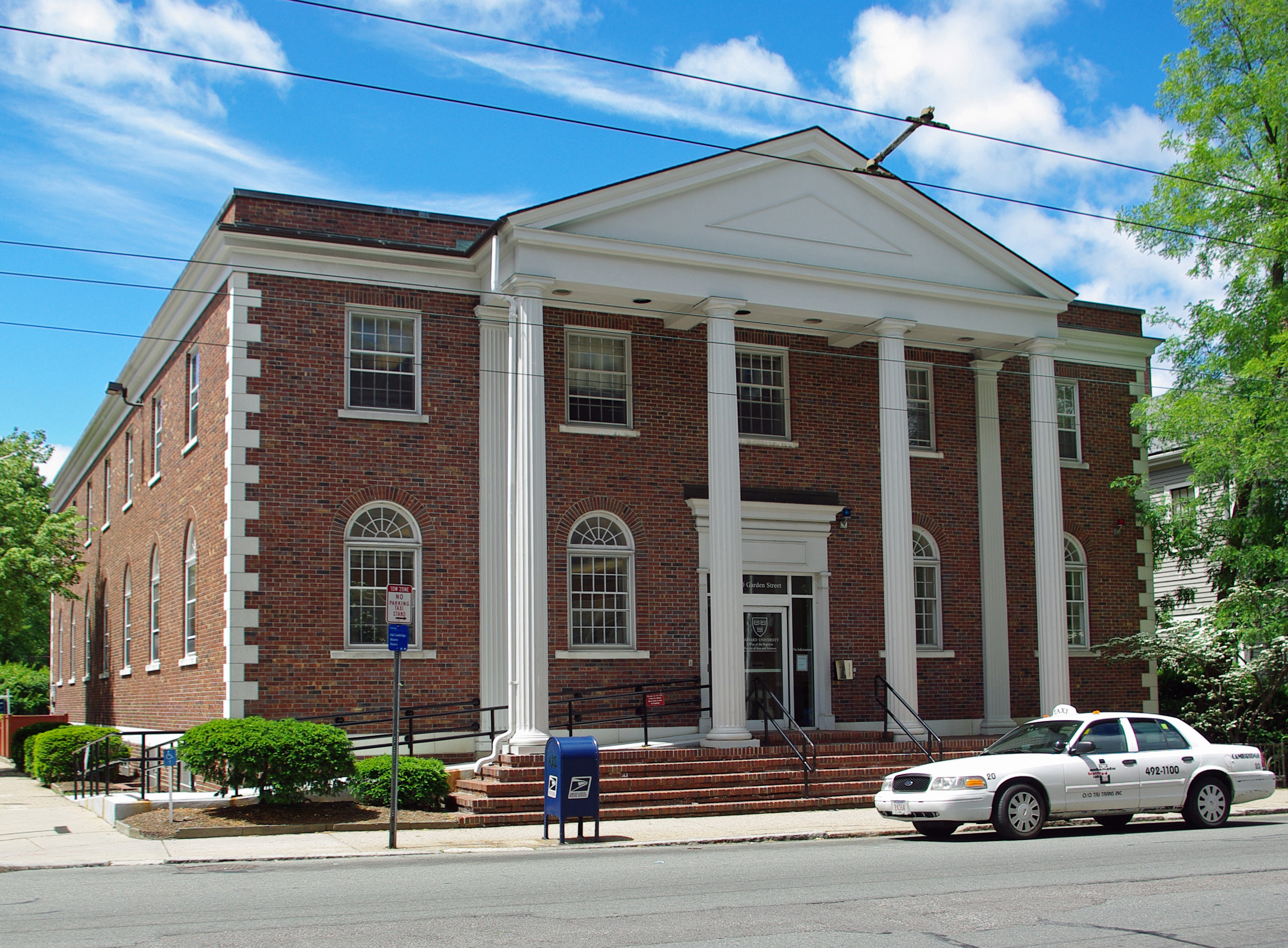 20 Garden Street, Cambridge (MA). Office of the Registrar, Faculty of Arts and Sciences, Harvard University